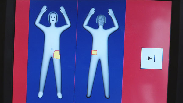 Result monitor of a body scanner